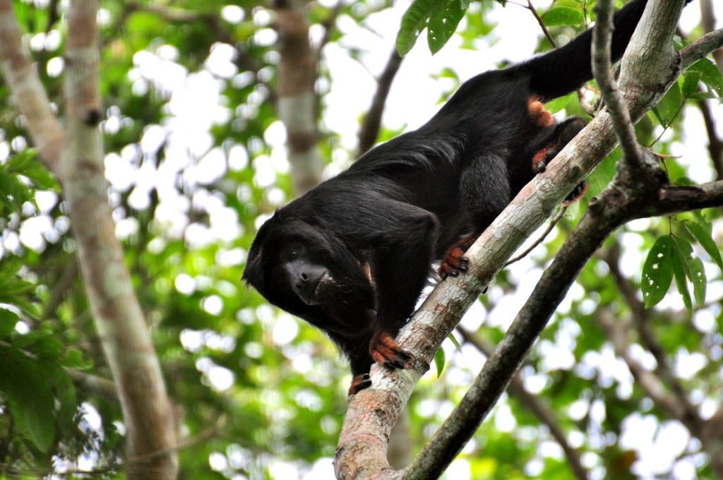 Red-handed howler (Alouatta belzebul) in Paraíba State, Brazil.